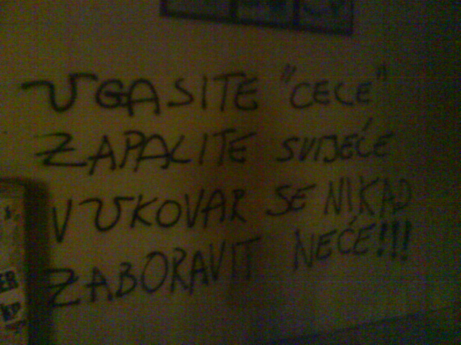 Grafitti against Ceca's music and turbofolk in general in Imotski